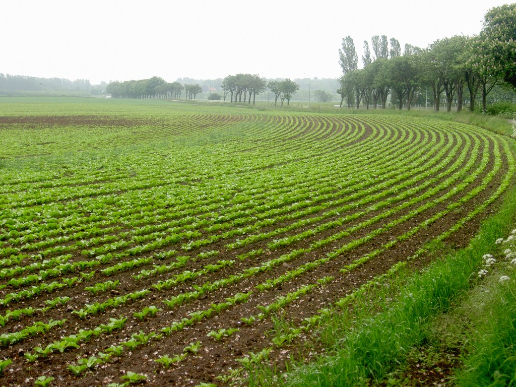 Field of sugar beet (Beta vulgaris L.) at Alnarp (June 2005). At the campus of the Agricultural University at Alnarp in the south of Sweden.